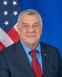 United States Department of State official portrait of Michael G. Kozak